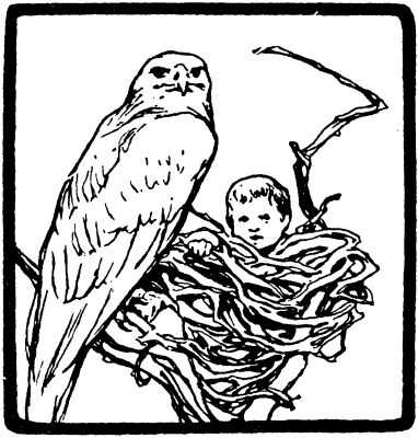 Illustration by Otto Ubbelohde to the fairy tale Foundling-Bird